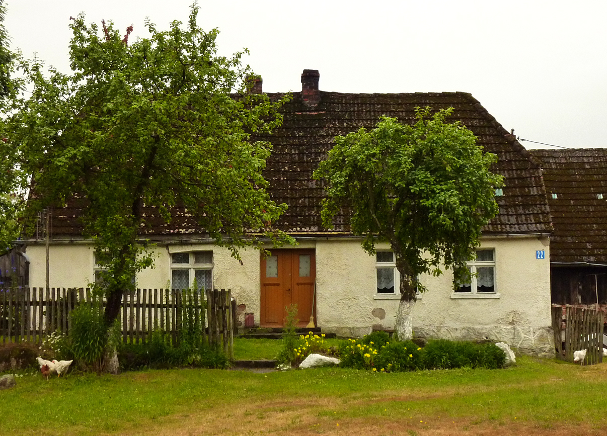 Zielenica, Poland